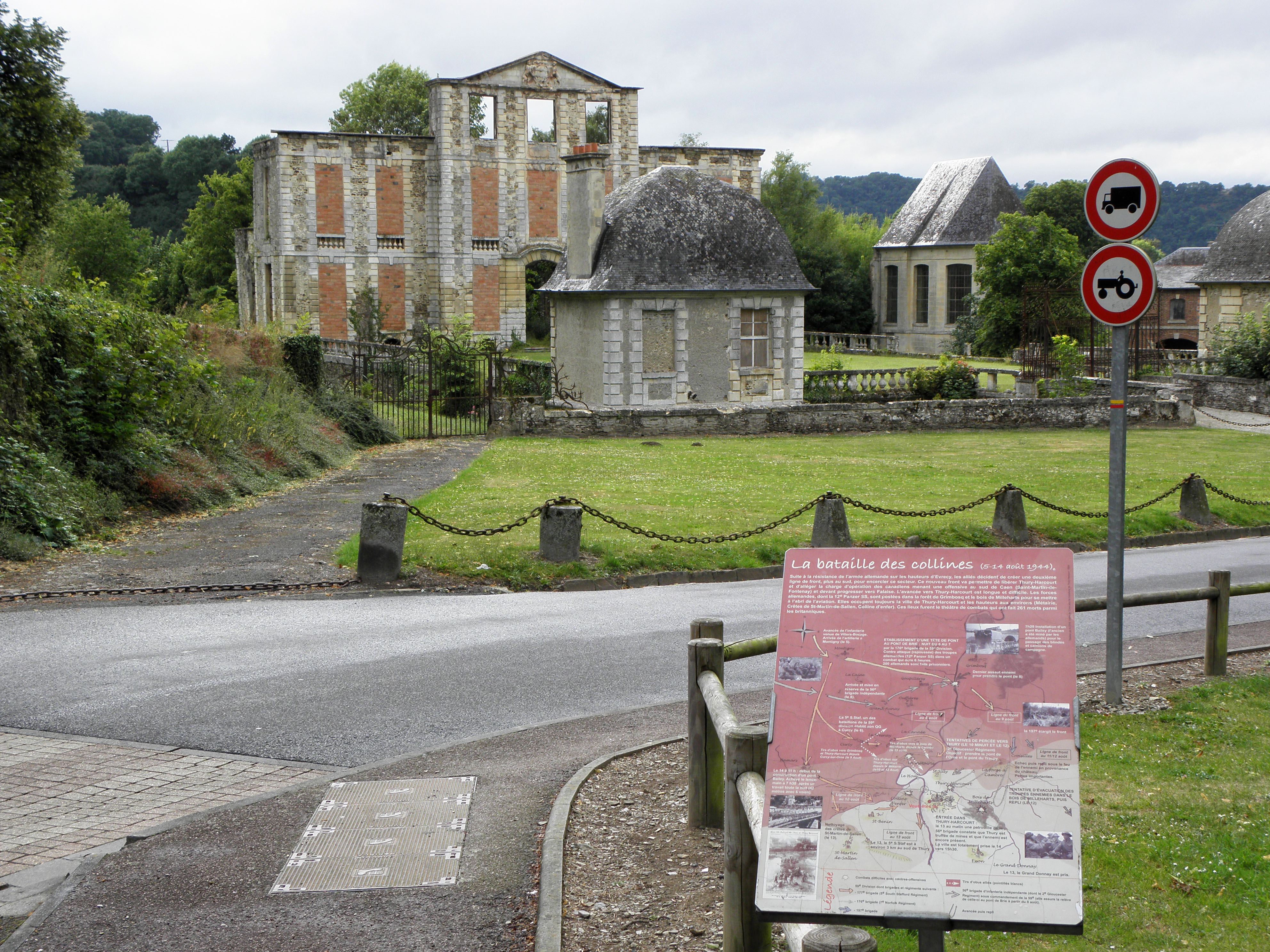 Central Pavilion of Castle Thury-Harcourt